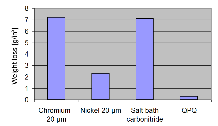 A chart that compares the corrosion resistance of the QPQ process to other surface treatments based on field immersion tests. Test conditions for the immersion test are full immersion in 3% sodium chloride plus 3 g/L of hydrogen peroxide for 24 hours. Based on a chart from [1].